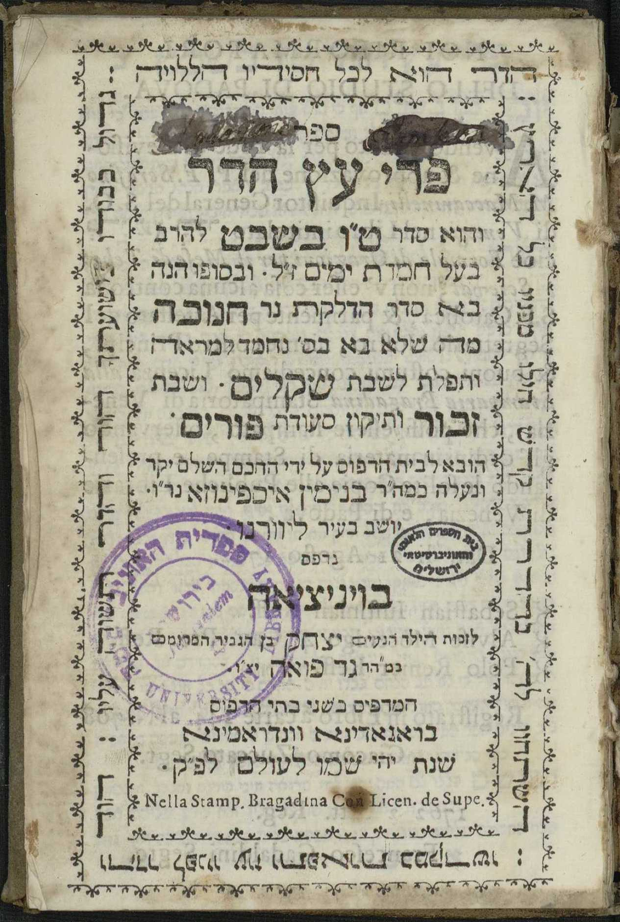 Tu-Bishvat seder